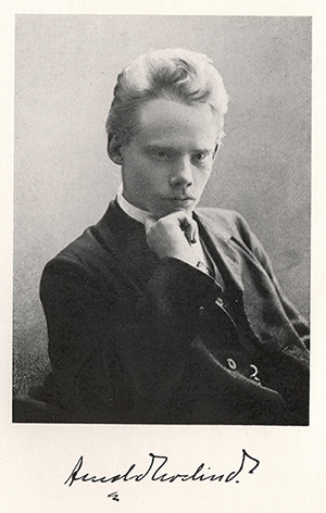 Arnold Norlind